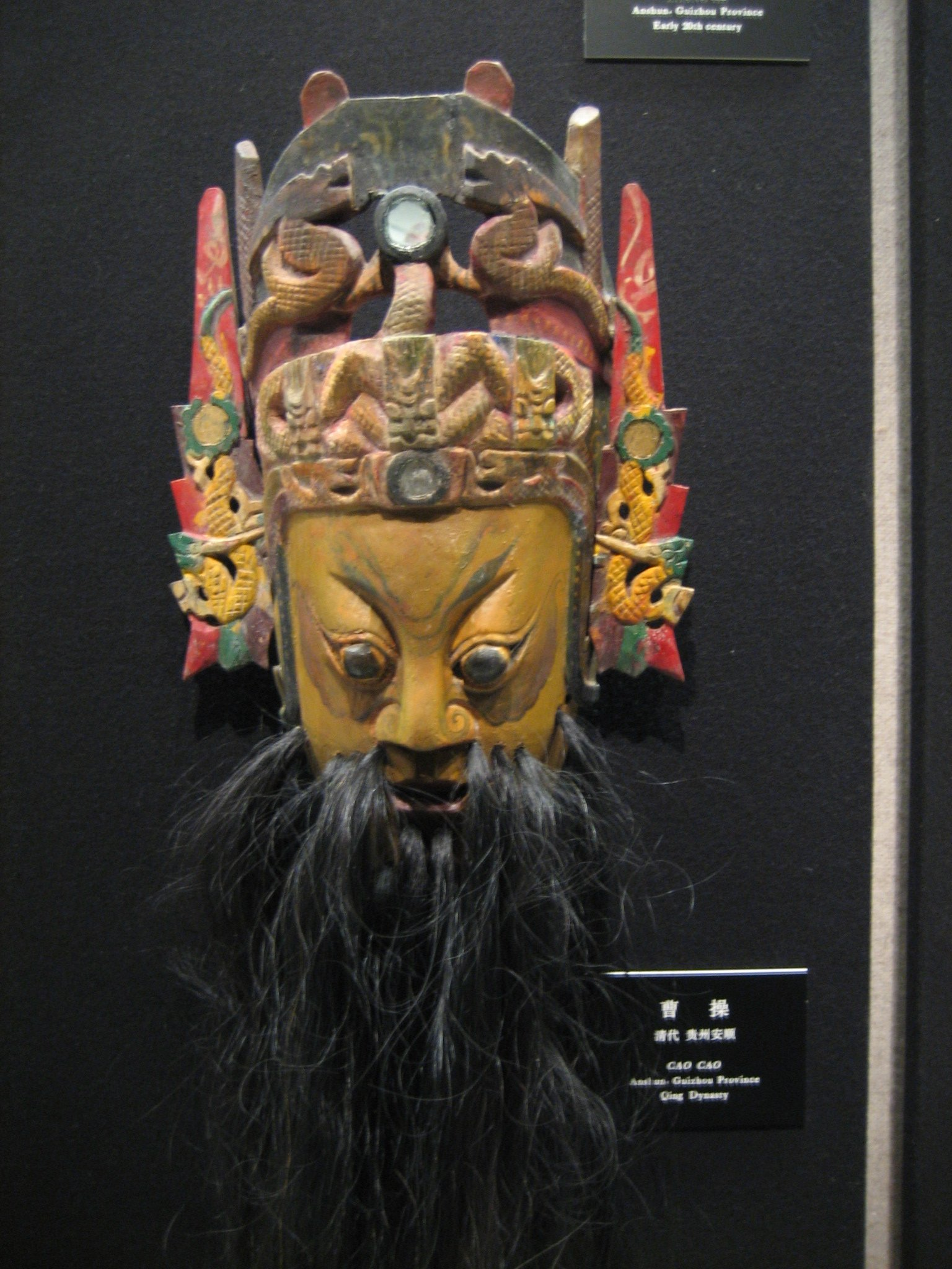 Mask of Cao Cao, Qing Dynasty, produced at Anshun, Guizhou; photoed by Mountain, at Shanghai Museum